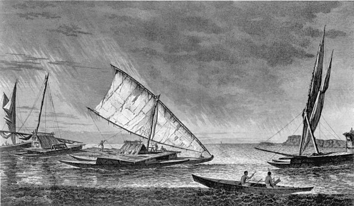 Shows Tongan canoes, with sails and cabins, and two Tongan men paddling a smaller canoe in the foreground; derived from "Boats of the Friendly Isles" a record of Cook's visit to Tonga, 1773-4, during his second circumnavigation of the world.